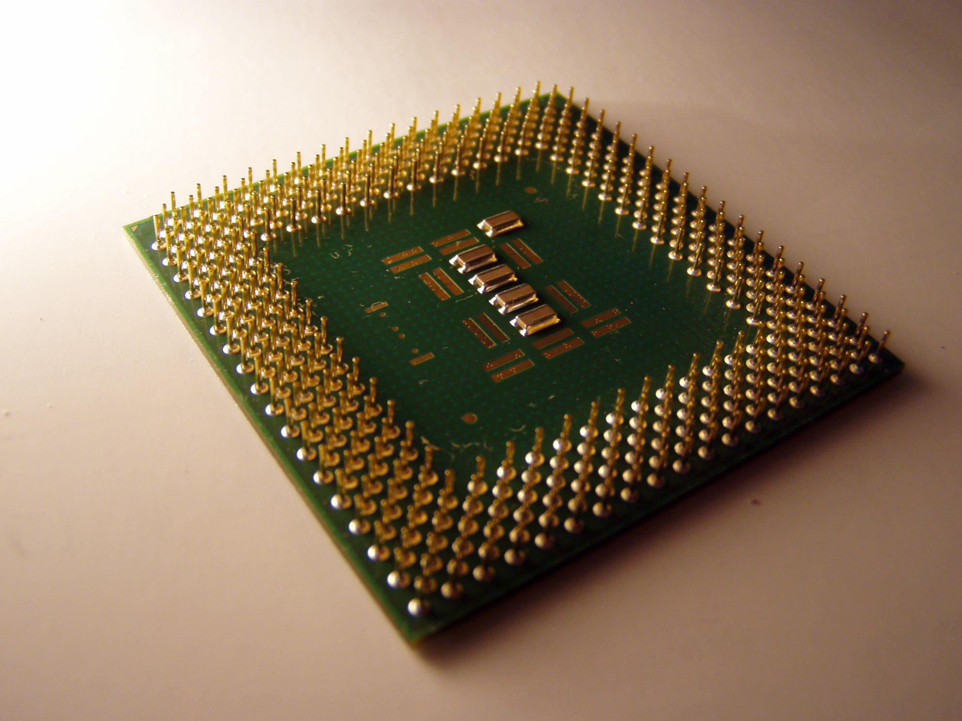 Intel CPU